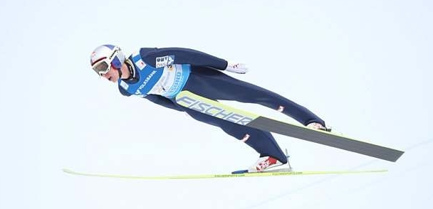 Gregor Schlierenzauer during team competition of FIS Ski-Flying World Championships 2012 in Vikersund.